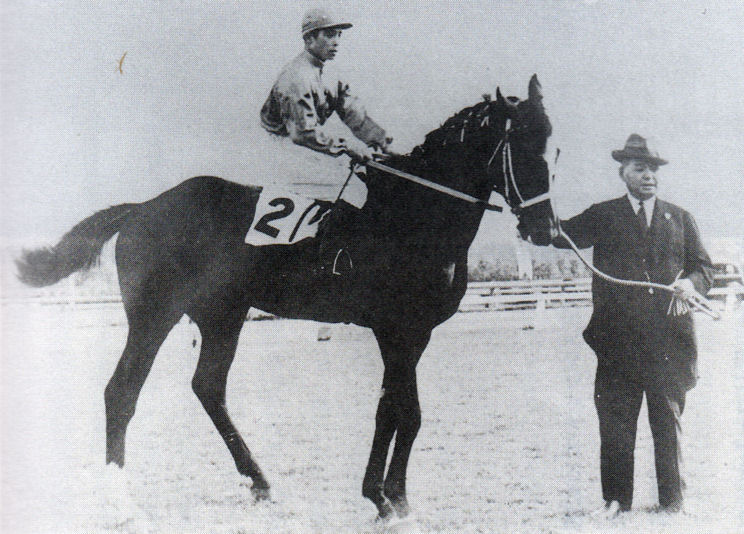 1938 Tokyo Yushun (Japanese derby) winner Sugenuma.